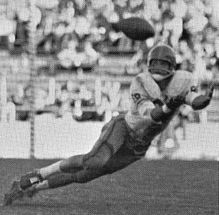 Mike Ditka in 1960 catching a pass as an end for the University of Pittsburgh football team.